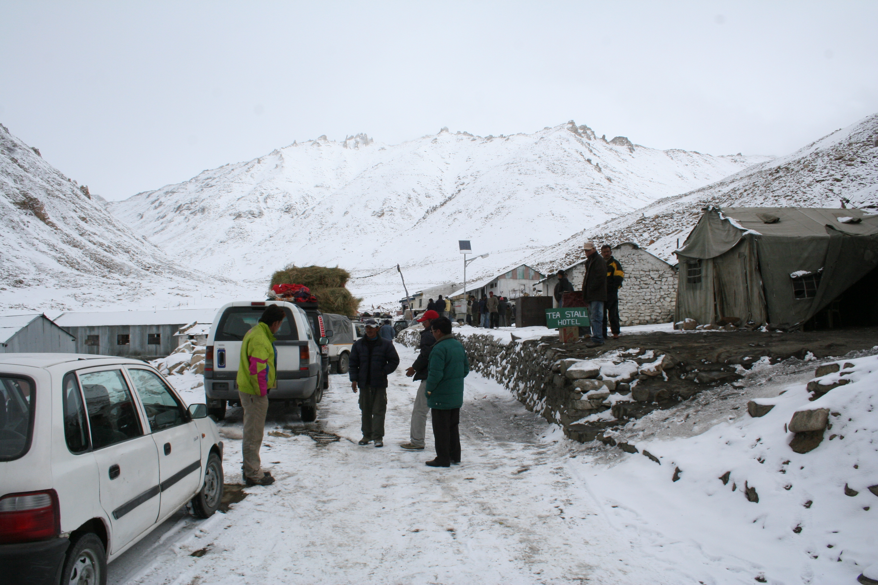 Khardung La Pass, highest road in the world